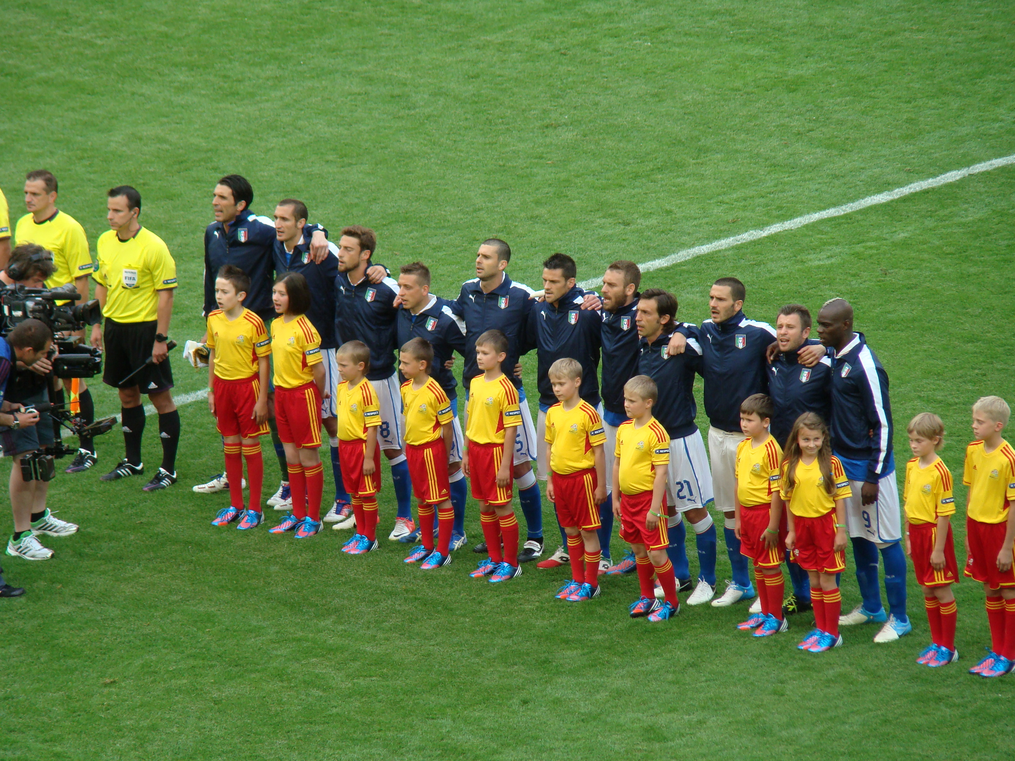 Italy national team while playing national anthem before the match against Spain during Euro 2012